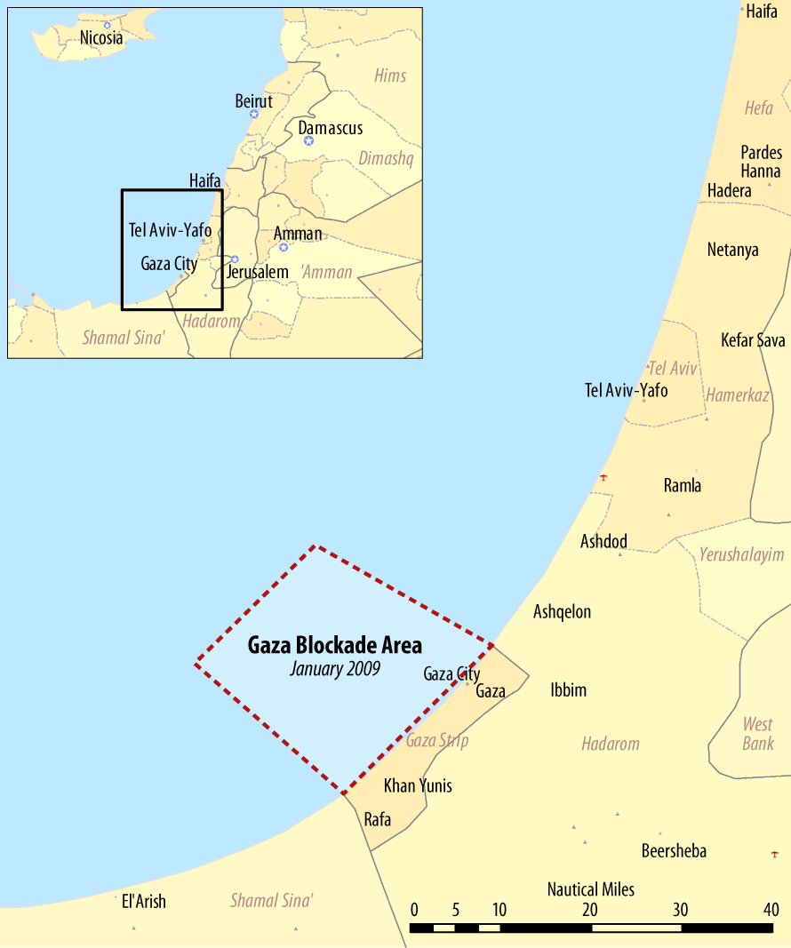 Extent of the Gaza Strip Sea Blockade, 2009